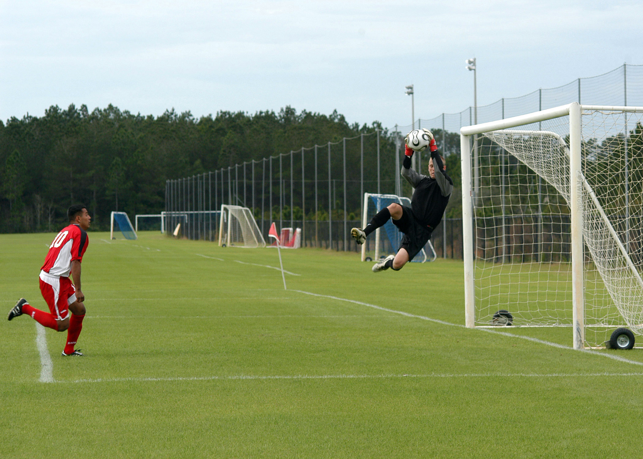 Jacksonville, Fla. (Jan. 19, 2007) - The All-Navy men's soccer team starting goalkeeper, Mass Communication Specialist 3rd Class Ian Elias, goes up for a save during a match against the Marines held at Patton Park. U.S. Navy photo by Mass Communication Specialist 2nd Class Adam Herrada (RELEASED)